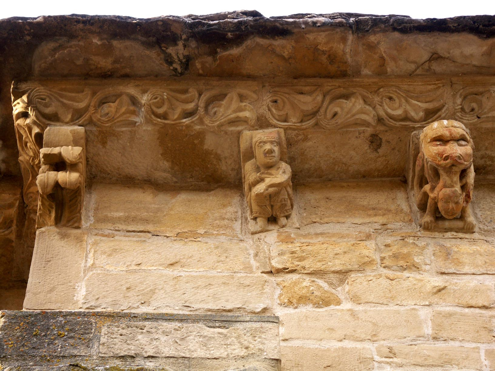 Corbels 24, 25 and 26 on the north side of the church of San Pedro de Etxano - Olóriz, Valdorba, Navarra